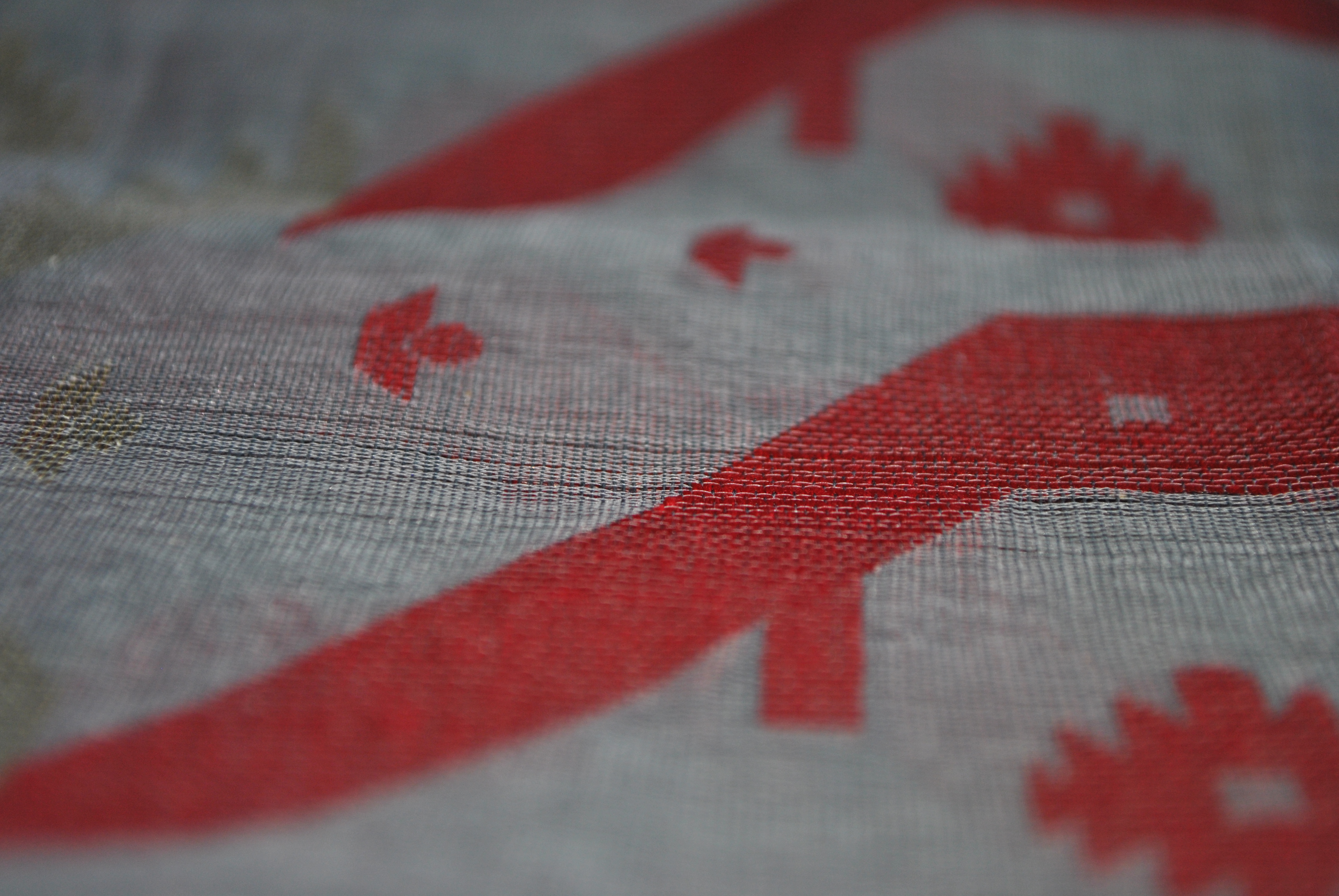 Jamdani self weaving